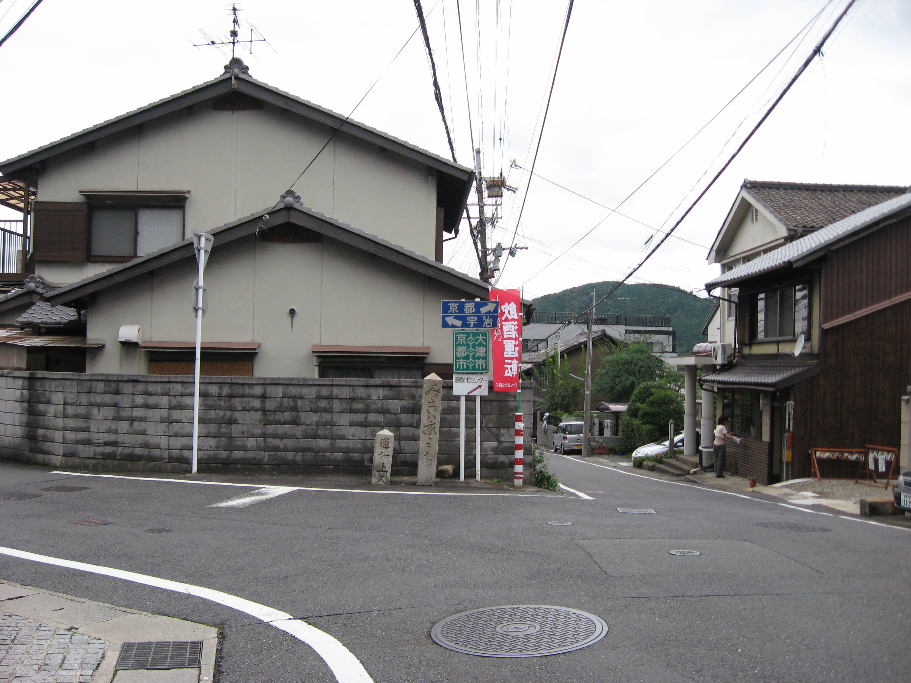 Higechaya Oiwake, it is crossroads of Tokaido and Osaka highway in the boundary of Shiga and Kyoto.